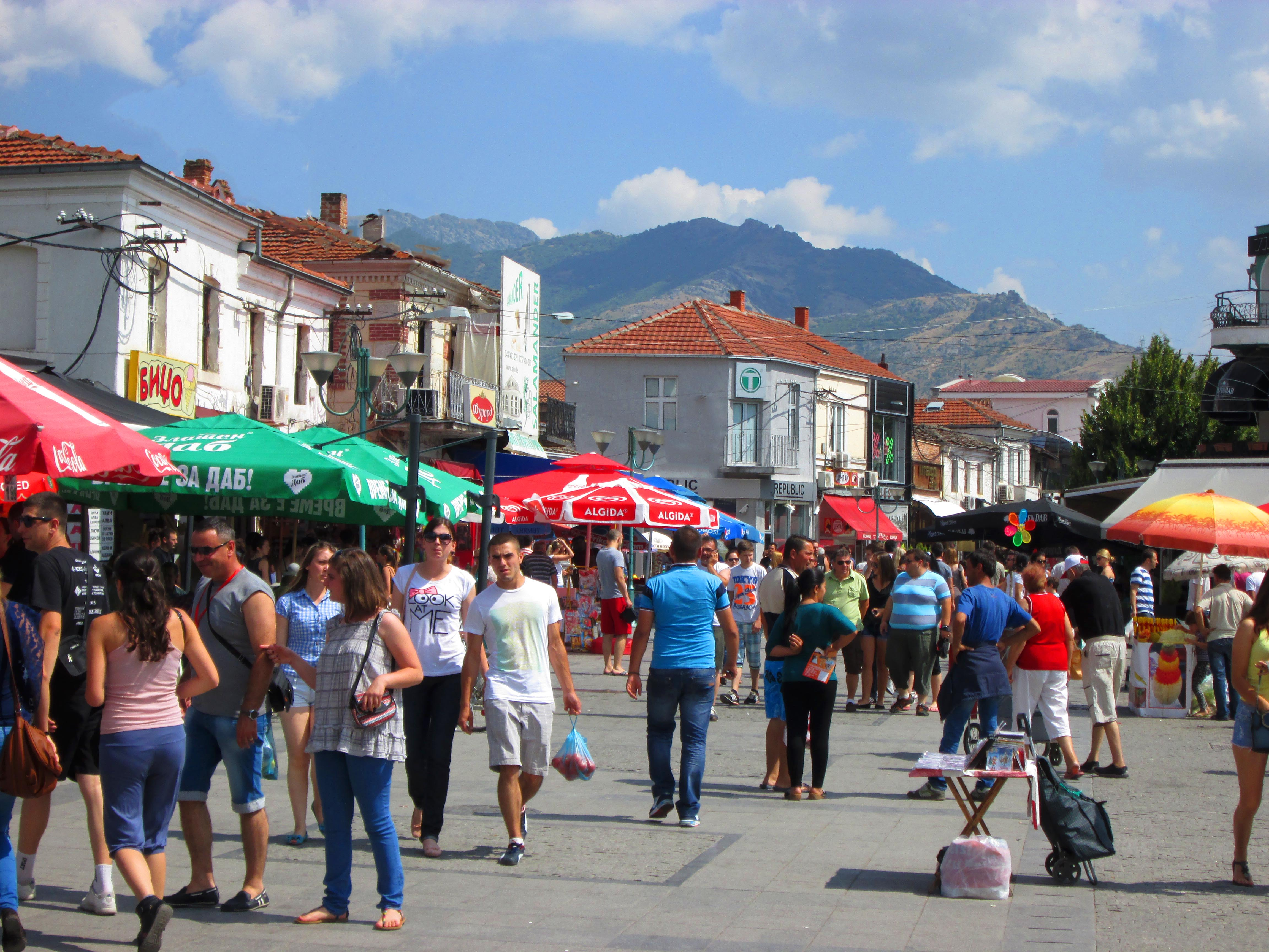 Old Bazaar in Prilep